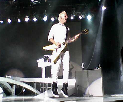 Tom Dumont during No Doubt's 2009 summer reunion tour at the White River White River Amphitheatre in Auburn, WA.